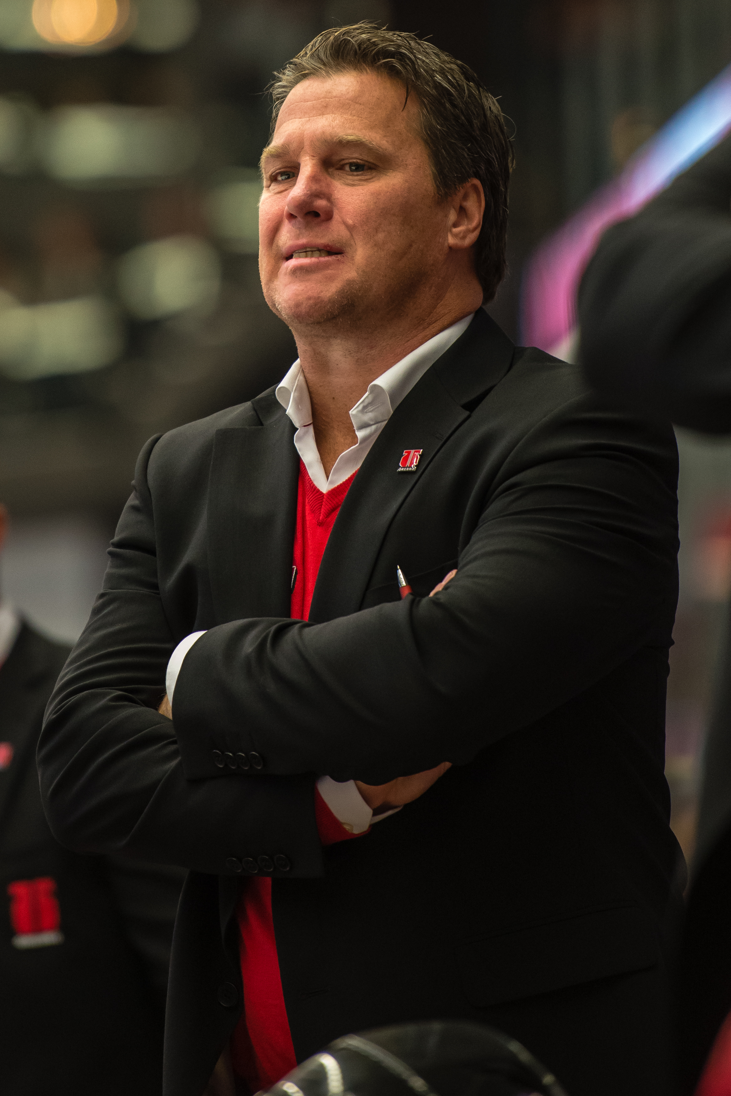 Håkan Åhlund, assistant coach of Örebro HK in SHL (Sweden's highest league) against MODO Hockey in Behrn Arena 2013-10-05.